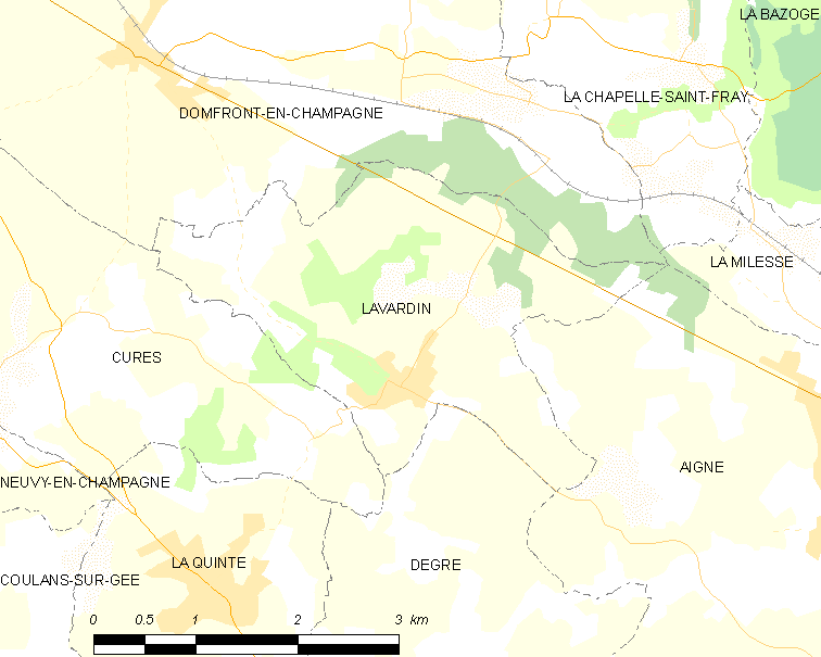 Map of French municipality